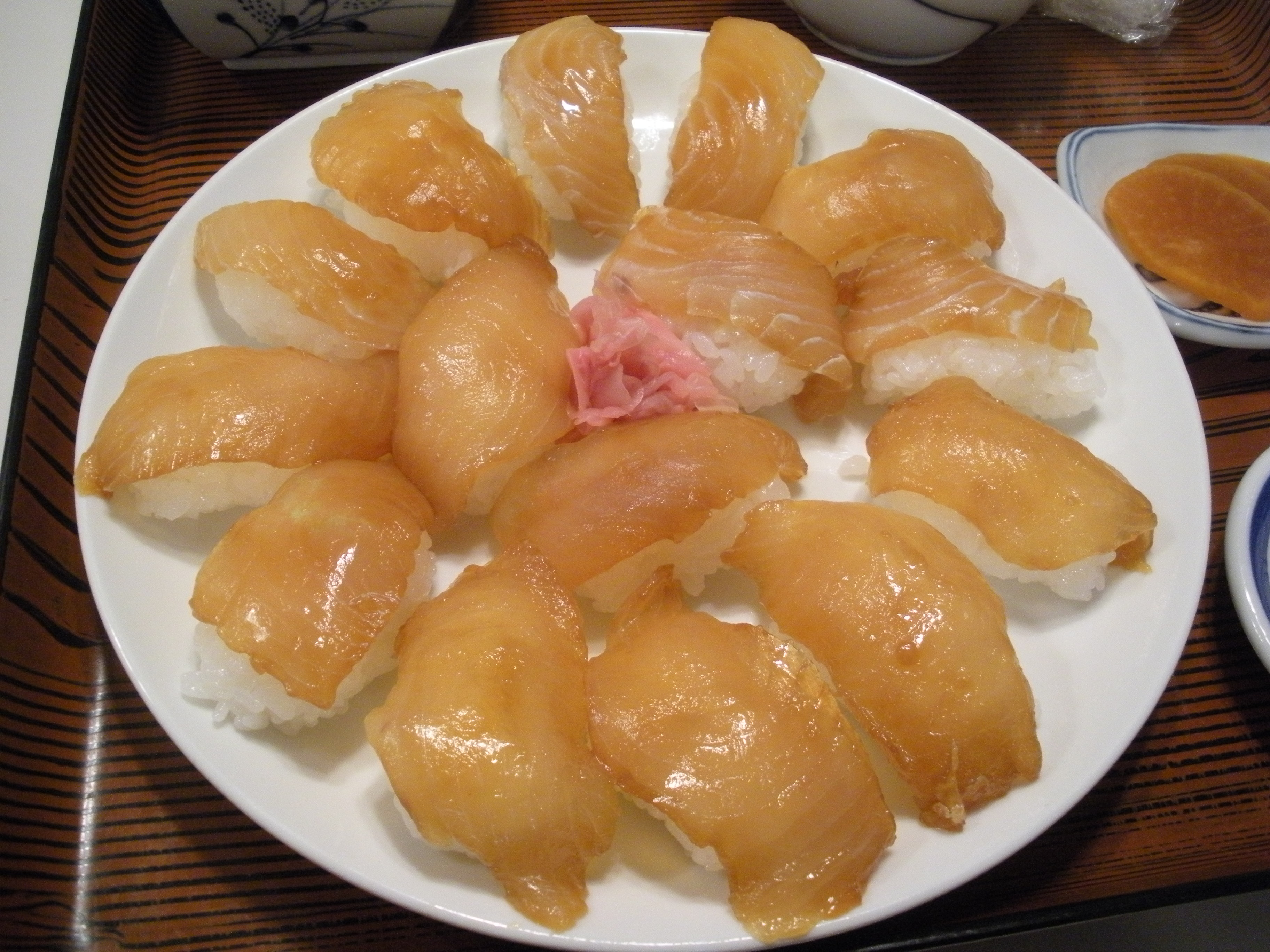 Japan Bonin Islands Traditional sushi ``Shimazushi``